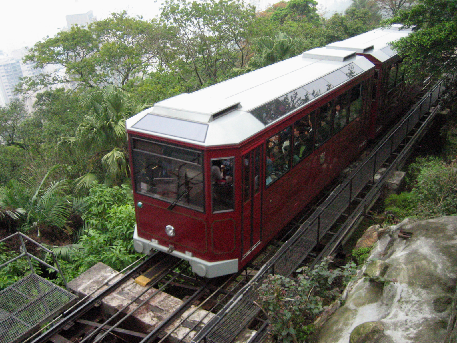 This is the tram that runs from Hong Kong's Central district to Victoria Peak. It's about a five minute trip with a maximum steepness of 48%.